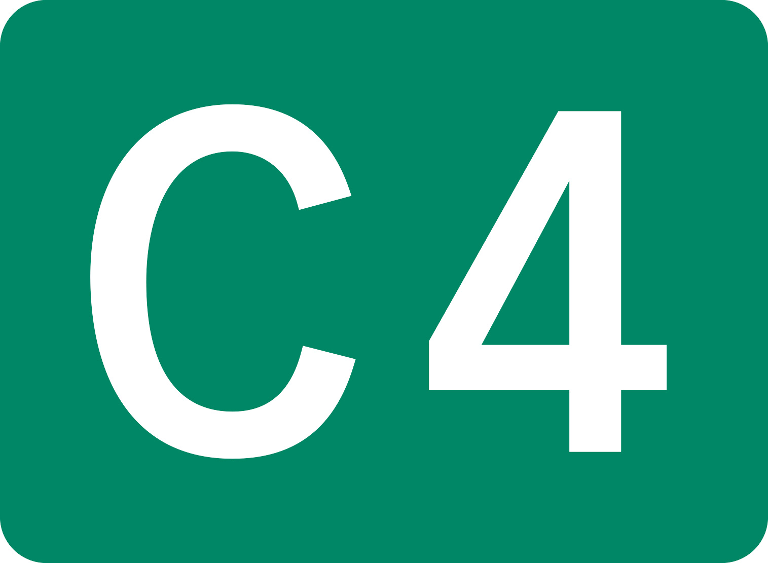 Signs for expressway numbering.."C4" representing the ken-o expwy.